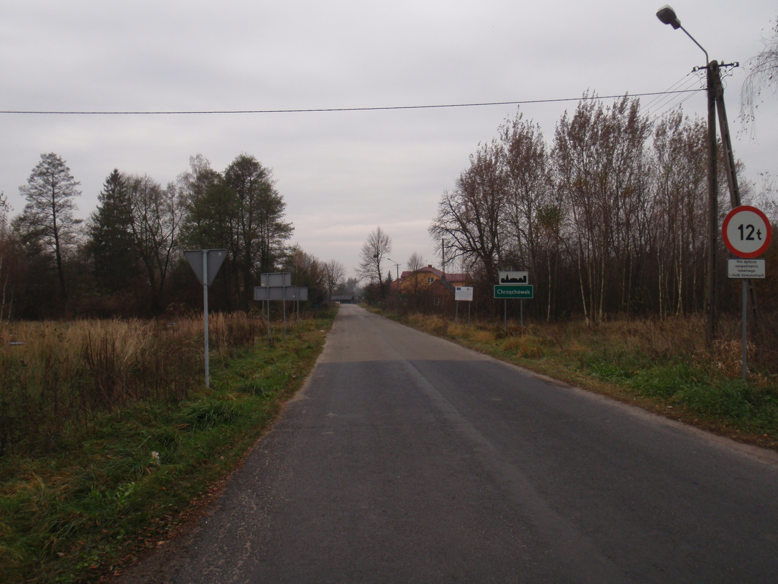 Chrząchówek - entrance to the village